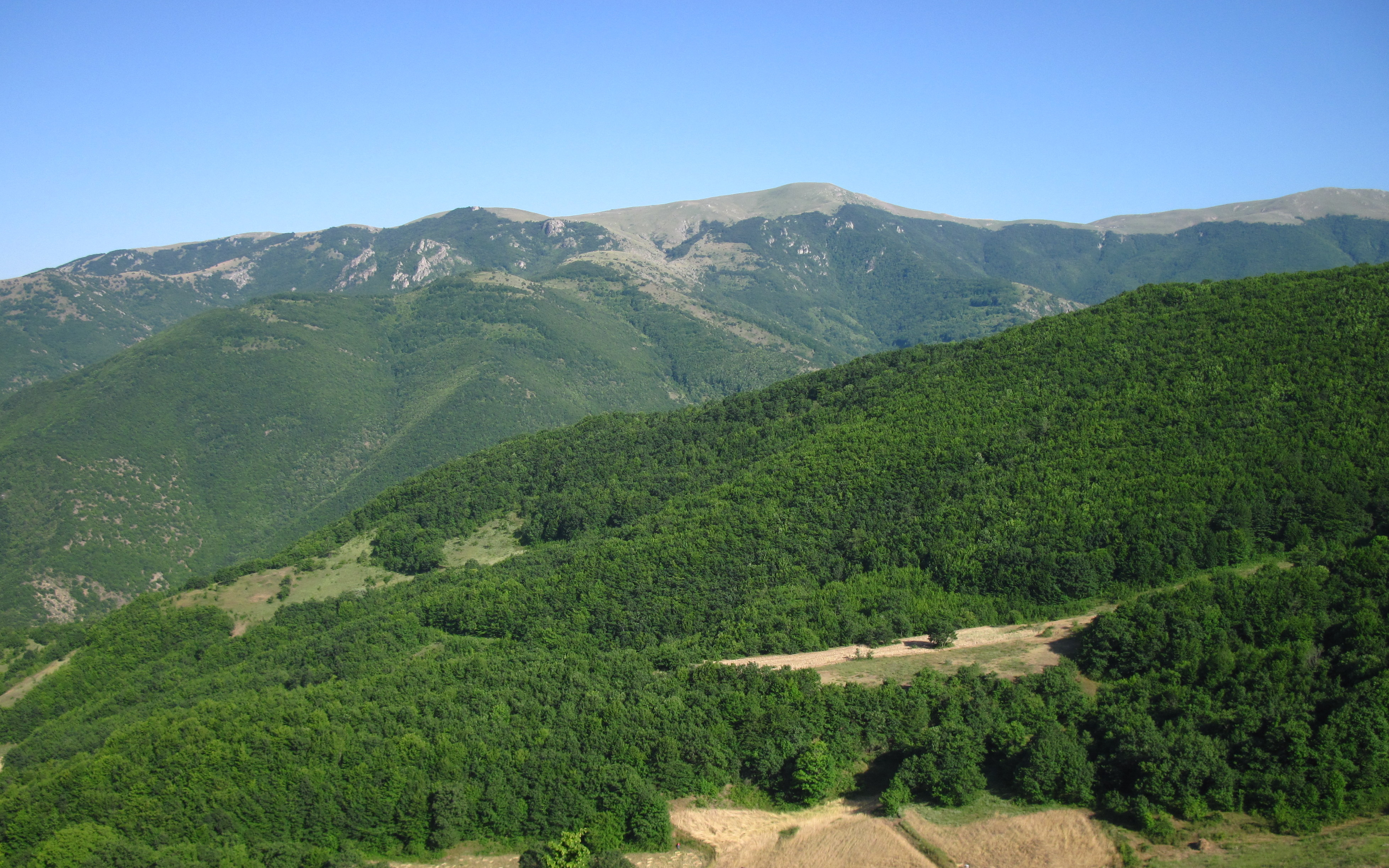 This photo ov Chaparli was taken from a location near Garmanab village.